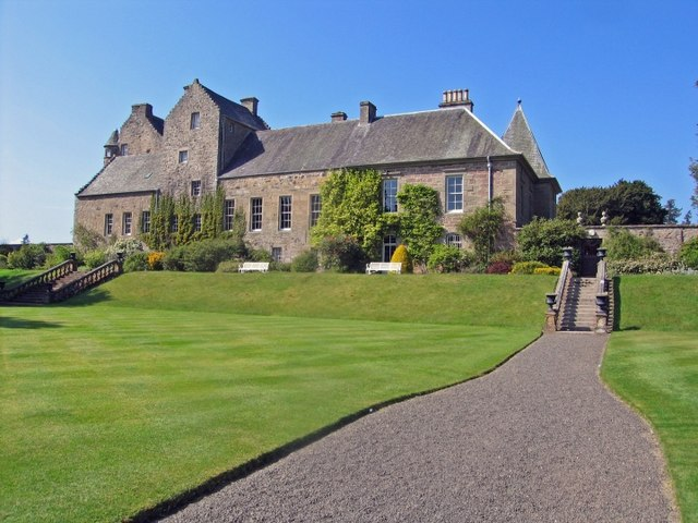 Murthly Castle Murthly Castle dates from the 14th century, it started off as a Royal Hunting Lodge and has been added to over the centuries. It is a private home which has been in the same family since 1615